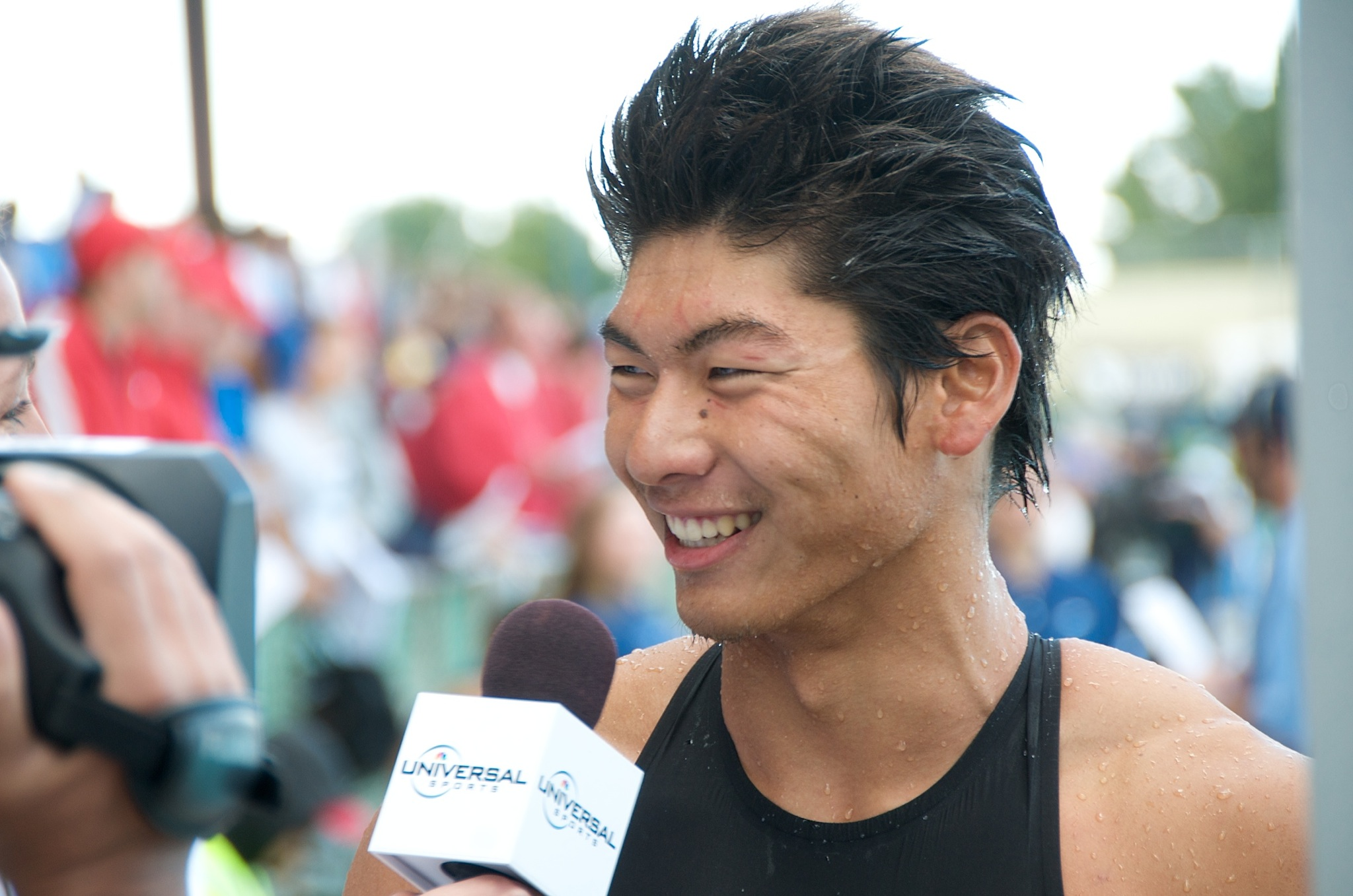 Masayuki Kishida after winning the 100 meter butterfly at the 2009 Santa Clara Grand Prix. Photo copyright by JD Lasica. for republication rights.